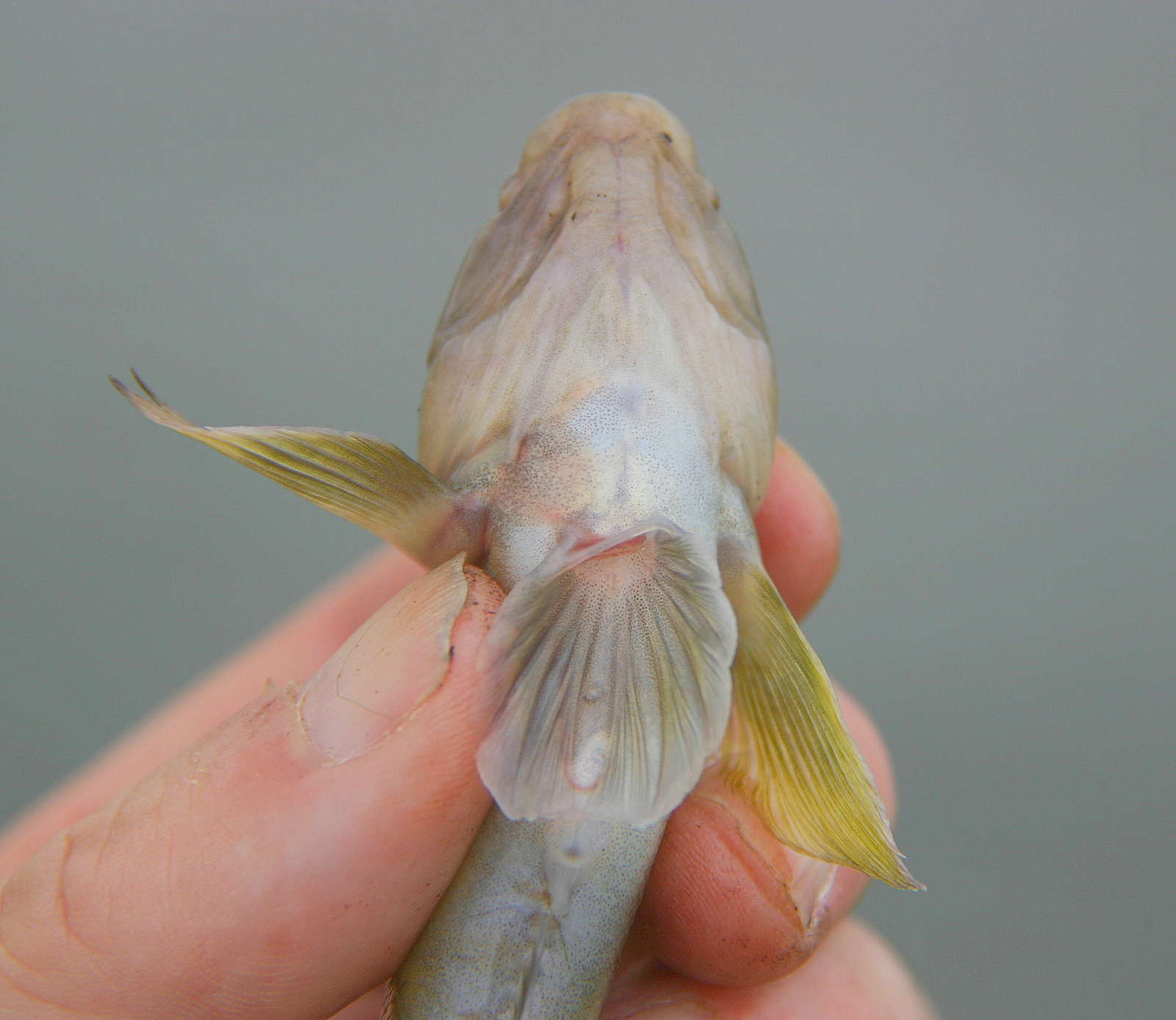 Round goby suction cup